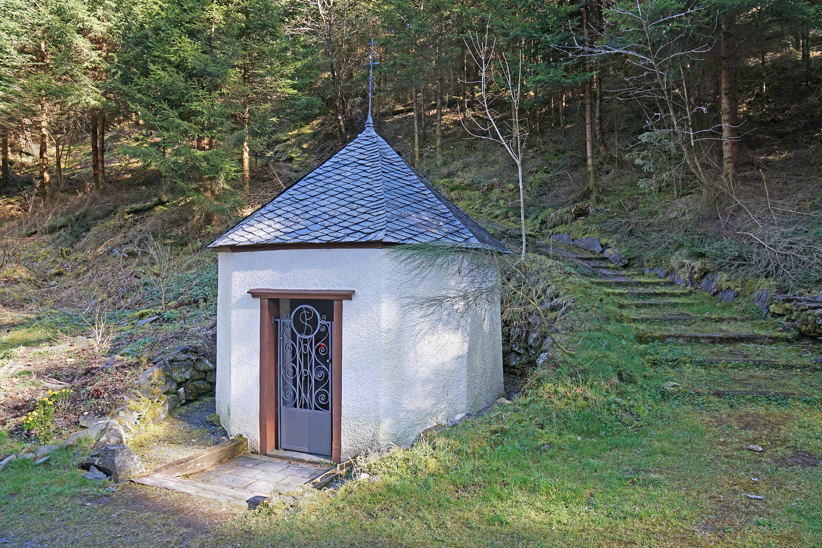 Wayside chapel with the Pirminius spring in Kaundorf